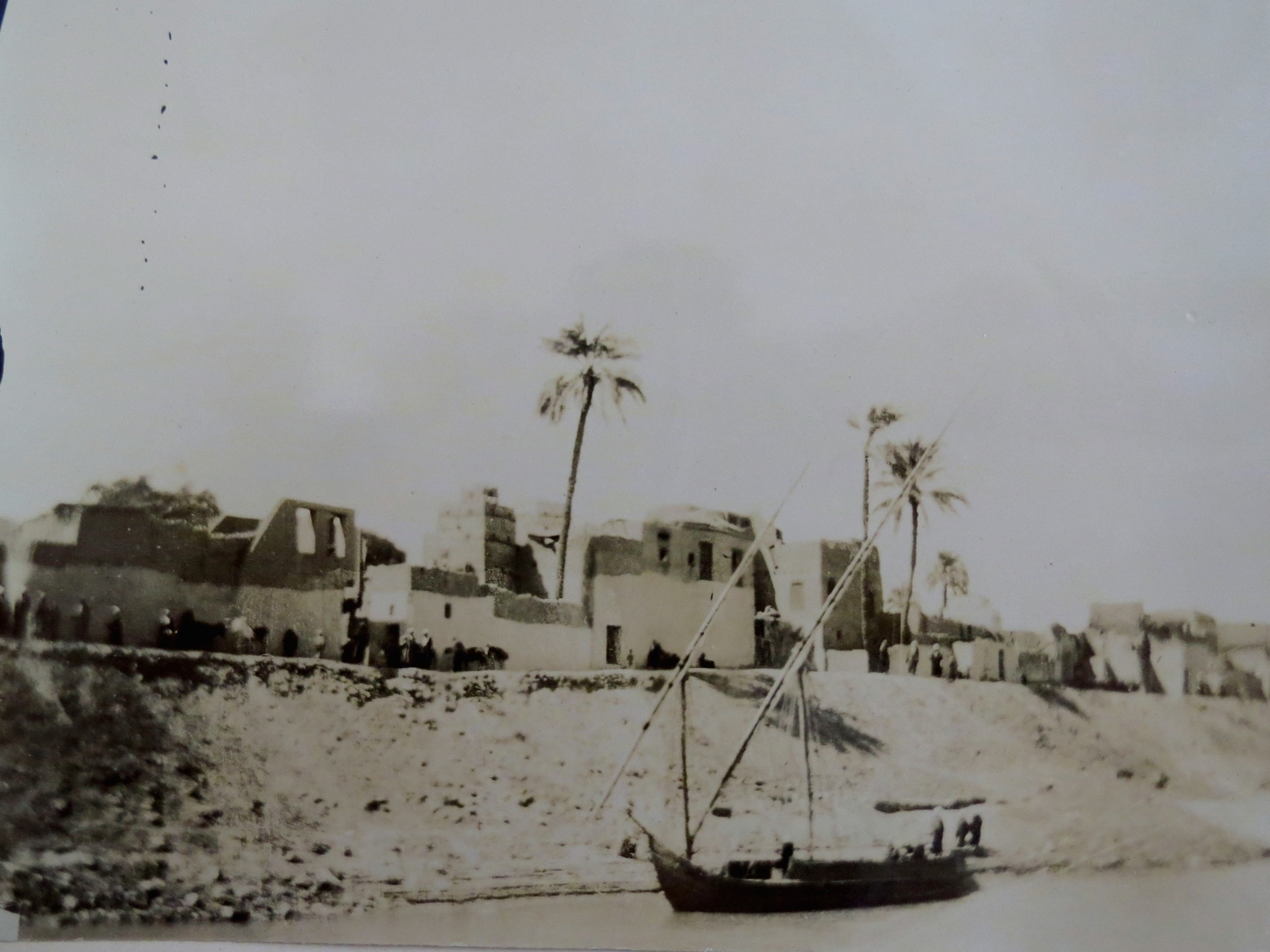 Village on the Nile, 1891. From original silver print in book titled: "A Month in Palestine and Syria, April 1891," (author unknown). Original 19th century book in the possession of Kimberly Blaker, New Boston Fine and Rare Books.